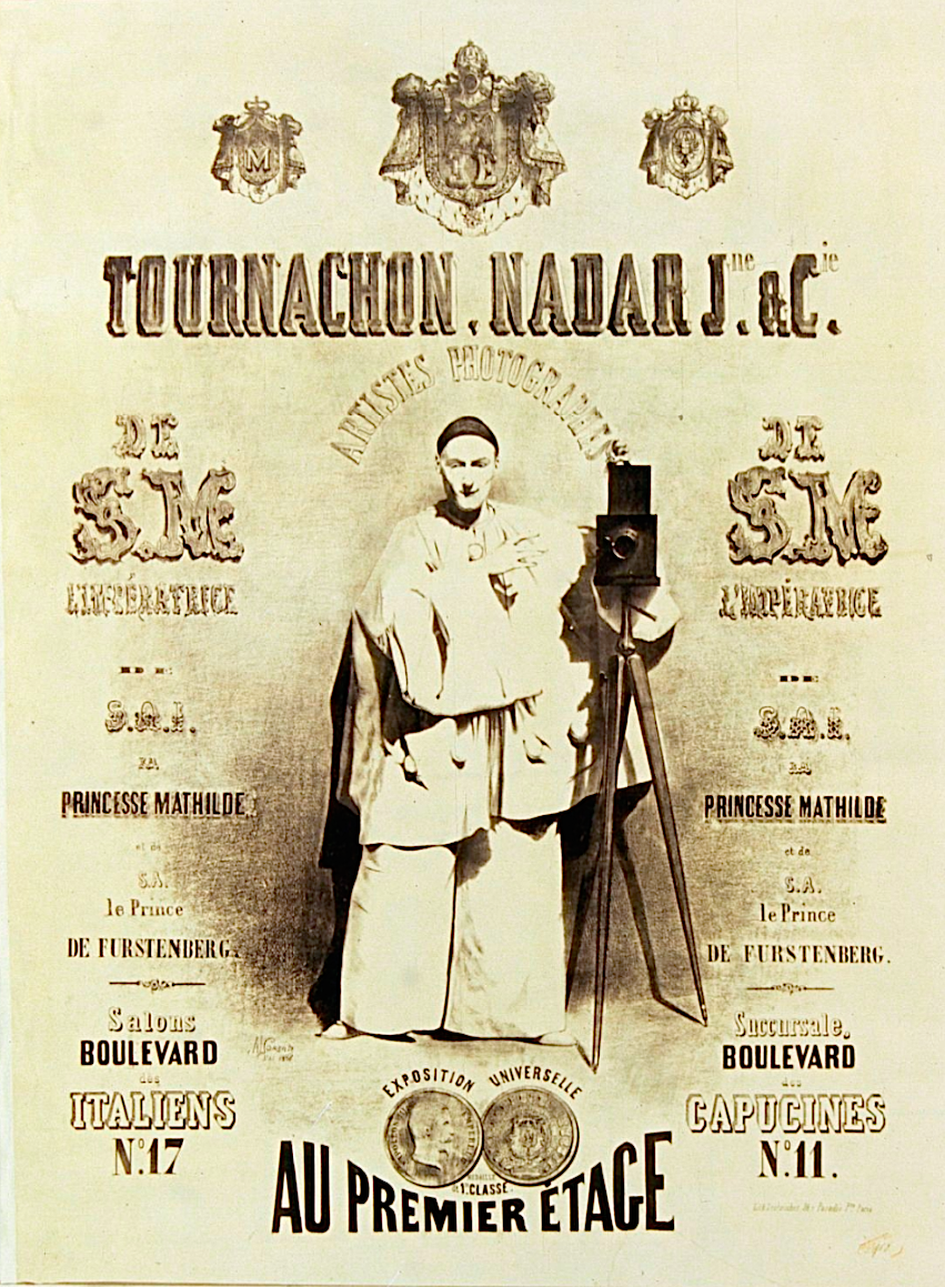 Tournachon, Nadar Jne. & Cie. Artistes photographes, lithographic poster, dim.: 102 x 76 cm. Printed in Paris. With Charles Deburau, in the center called in french a clown blanc or Auguste, at the side of a photographic chambre.